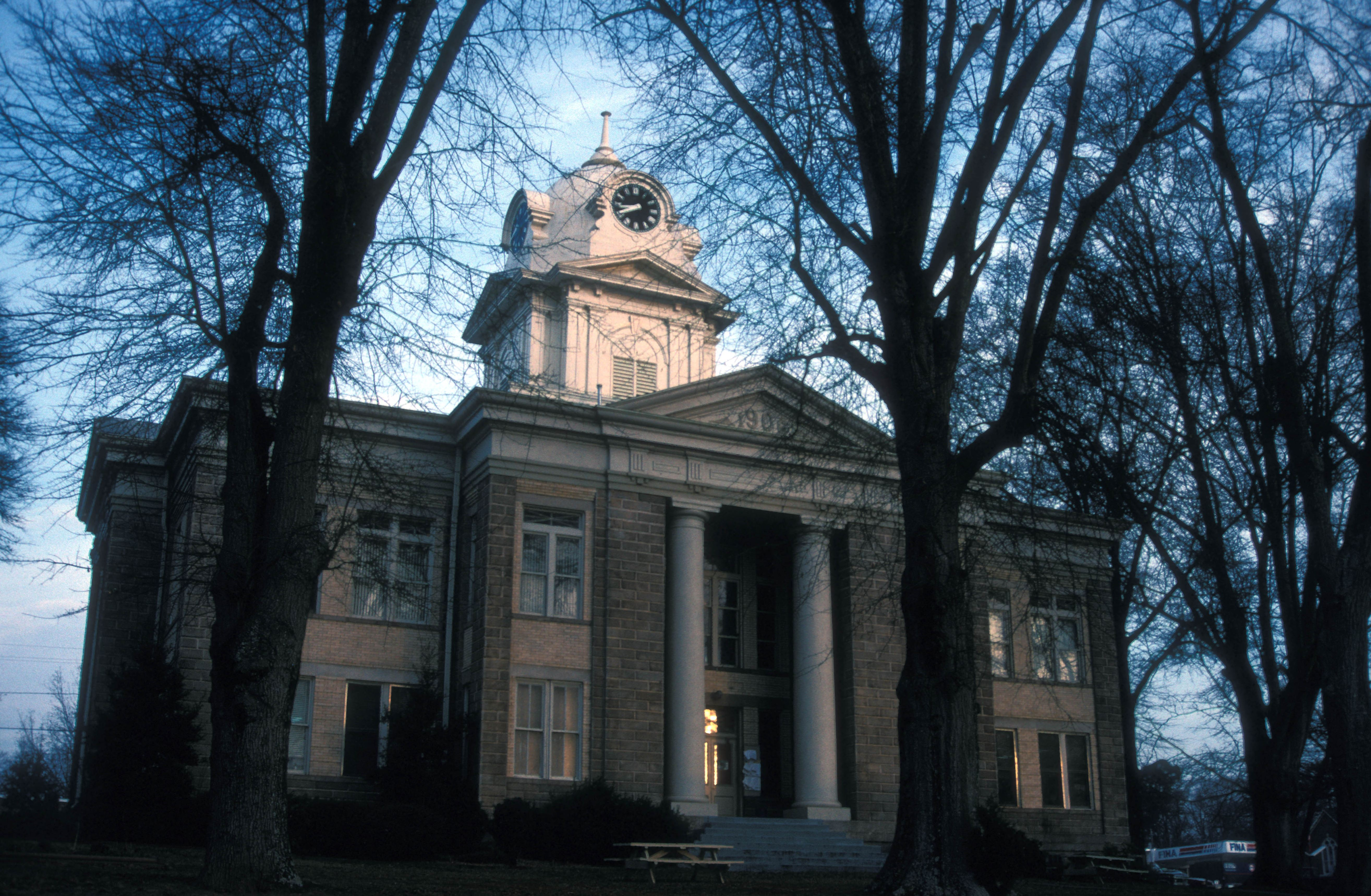 Franklin County Courthouse in Carnesville; 1906 neo-classical architecture. Located on Lavonia Road (state route 59) and Royston Road (state route 145).